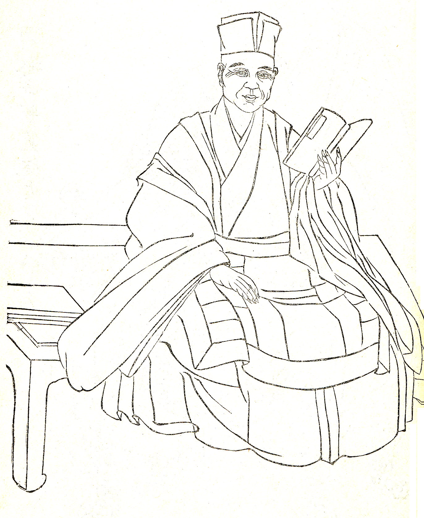 Sakugen Shūryō (策彦周良) was a Zen monk in the Sengoku period of Japan.